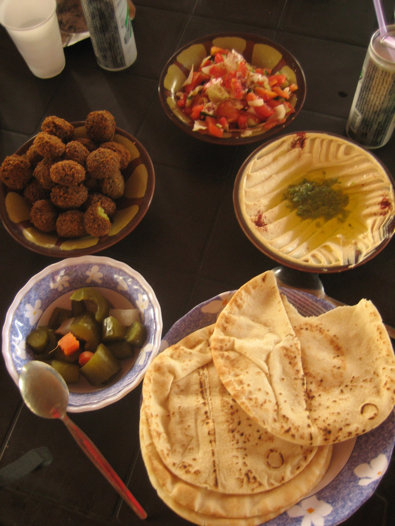 Breakfast in Ajlun, jordan.